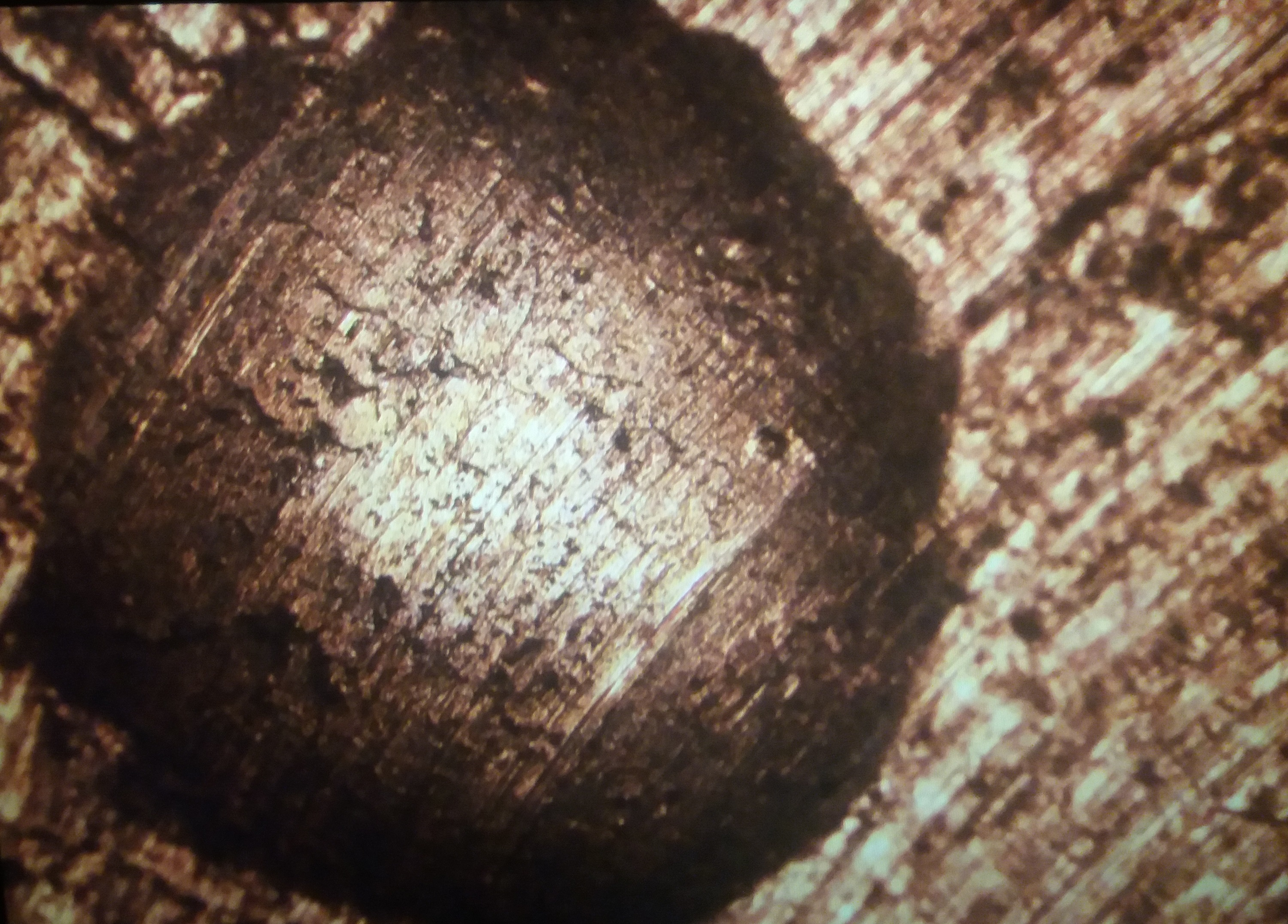 Image shows a worn surface of Aluminum-Boron carbide composite. The Aluminum composites are known for their anti-wear properties. This image shows a worn surface due to abrasive wear of an Al-MMC